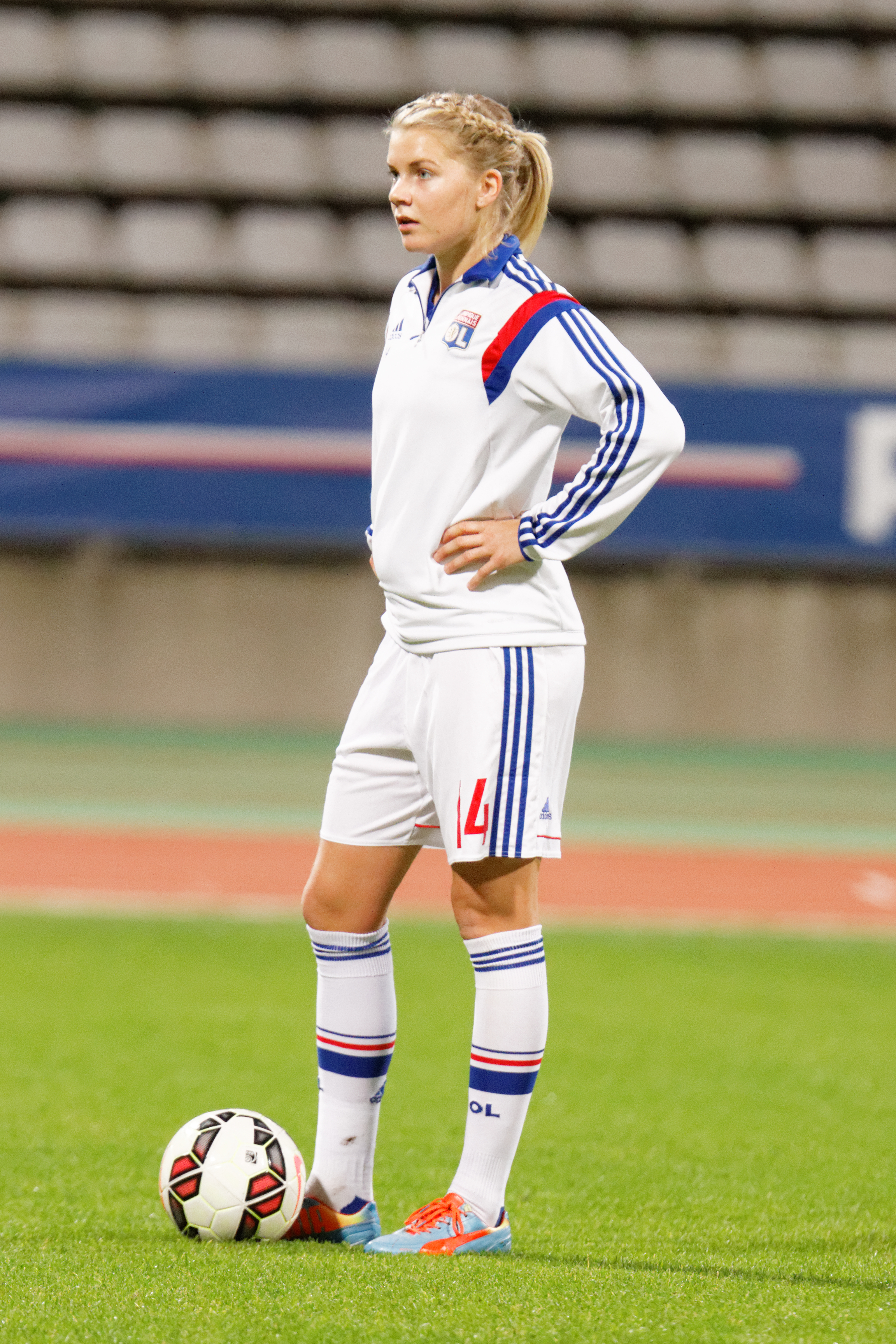 UEFA Women's Champions League, PSG - Lyon, 8 November 2014.